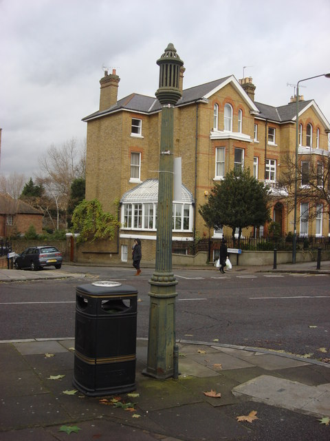 Sewer ventilation pipe This Sewer ventilation pipe sits between Paradise Road and Lichfield Terrace. The road going down hill nest to the grand Victorian house is Lichfield Gardens.